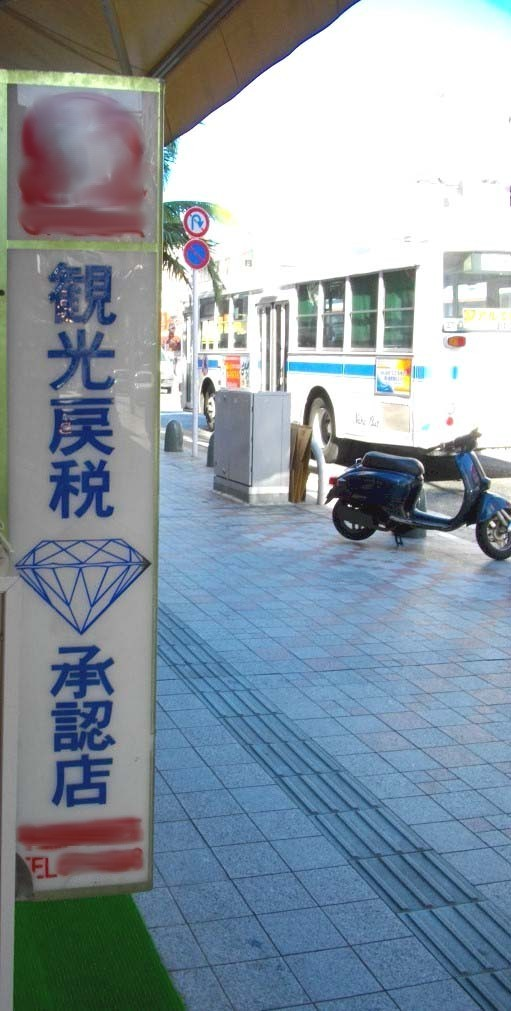 Former Kanko-Modoshizei Shop(Kanko-Modoshizei Shop was so-called "Duty Free Shop" in Okinawa during 1972-2002.)